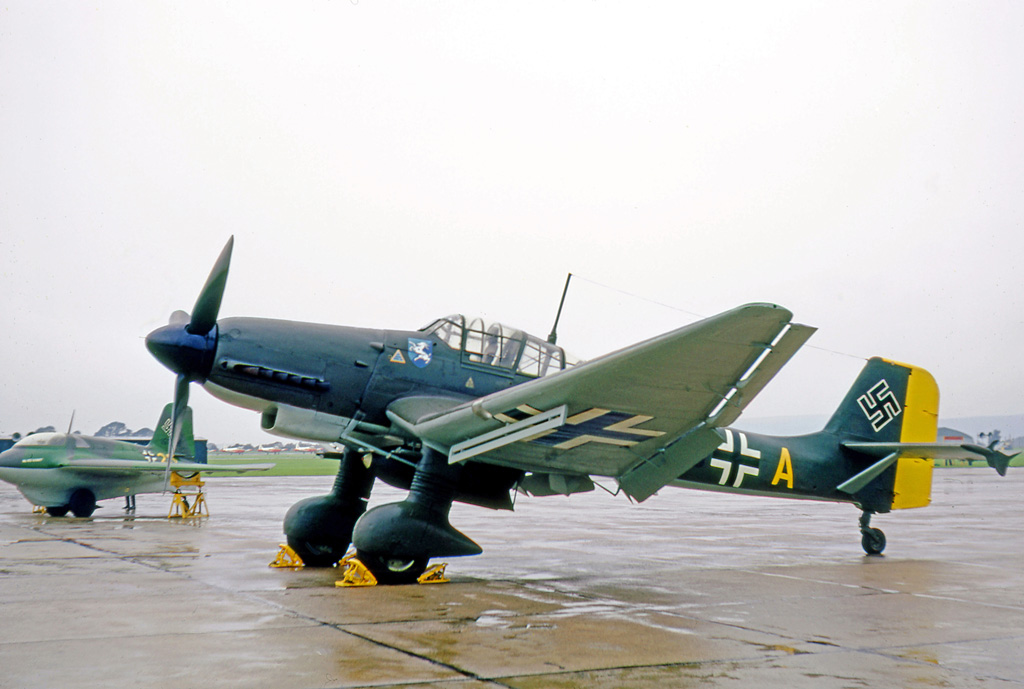 Junkers Ju87G-2 494083 preserved in 1970 wearing code W8-A. Maintained by RAF St Athan, displayed at RAF Chivenor.